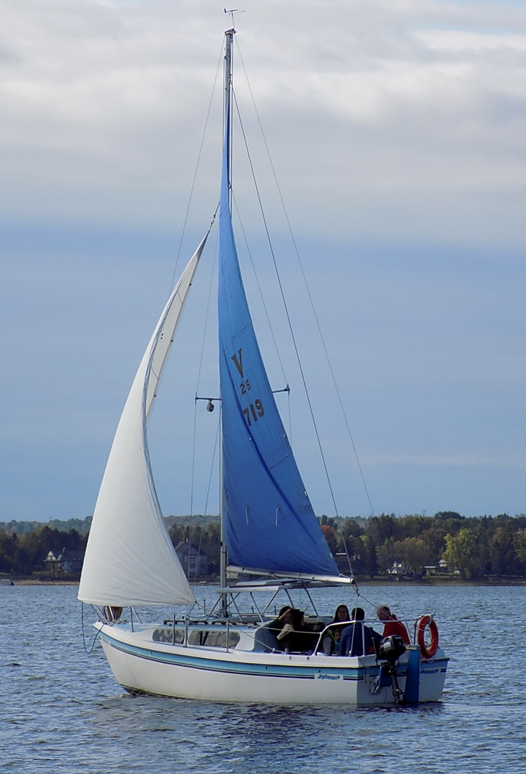 A MacGregor 25 sailboat named Jylona.